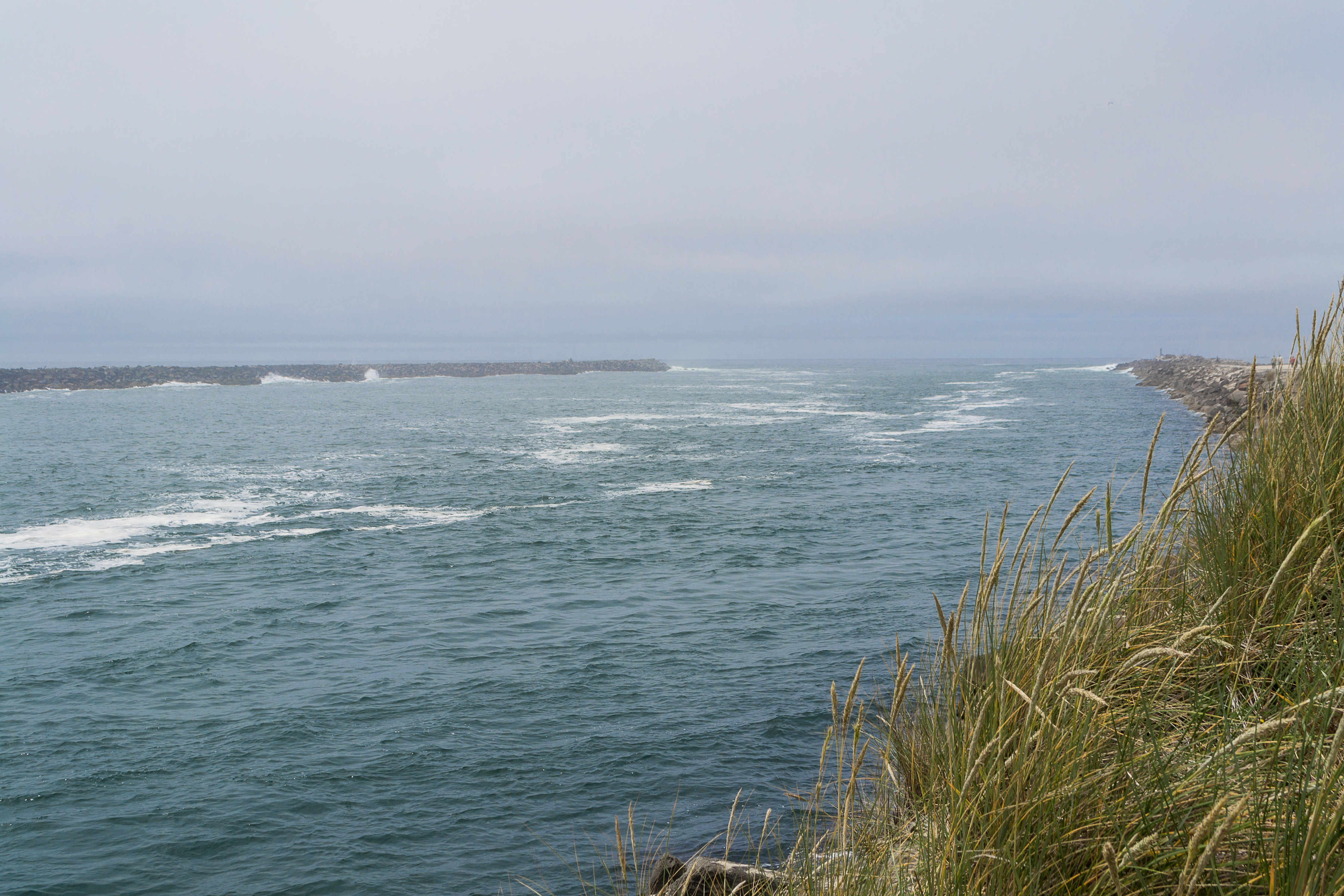 The North and South Jetties are visible at the entrance to the Siuslaw River in Florence, Oregon